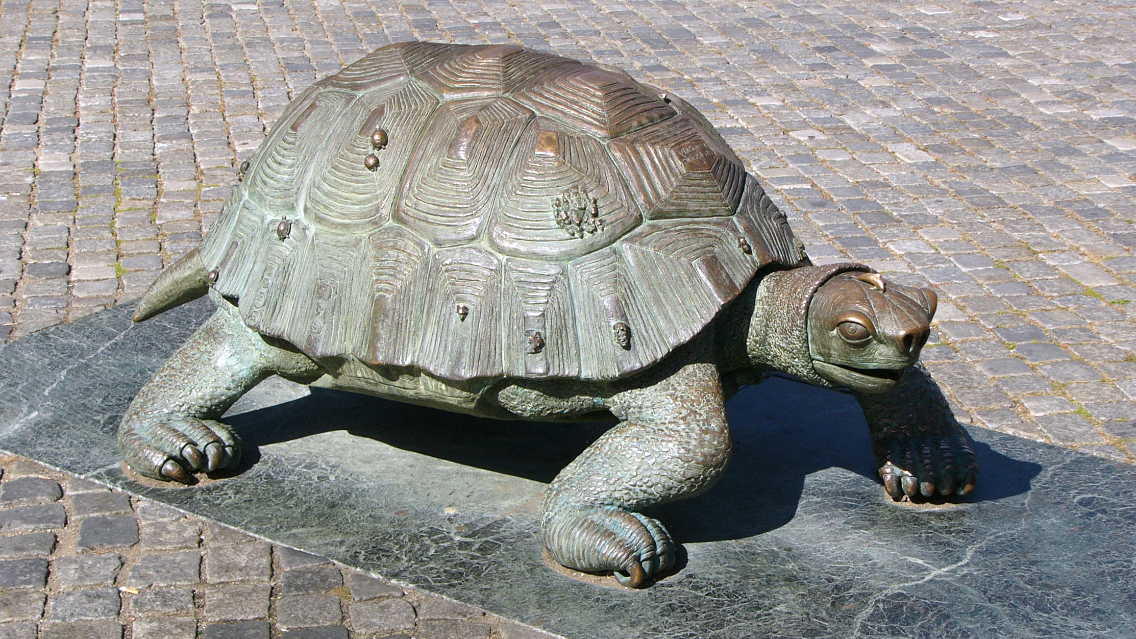 Statue of tortoise by Ivan Theimer, near Fountain of Arion in Olomouc (Czech Republic).